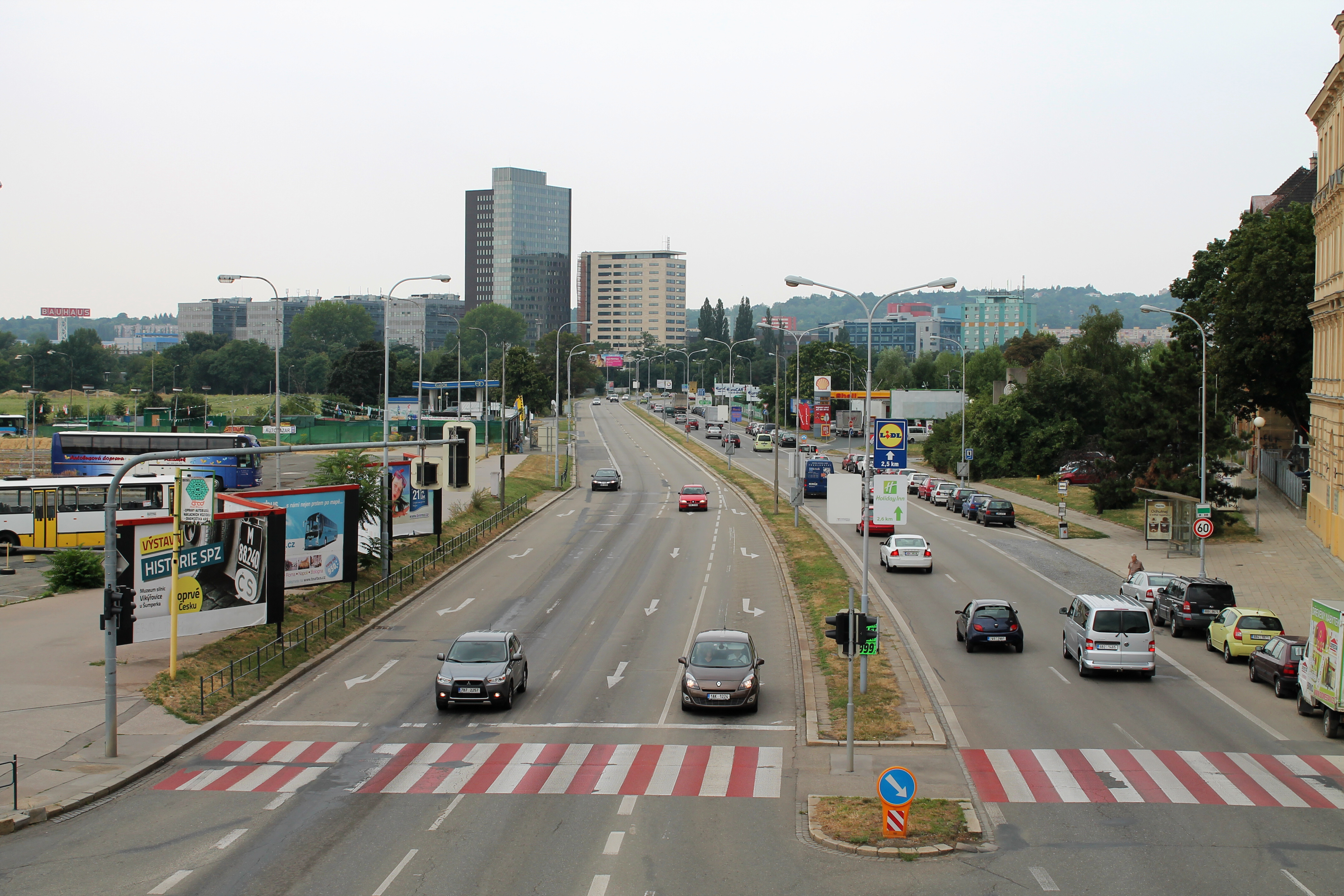 Road I/42, Brno, Czech Republic